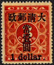 Red far